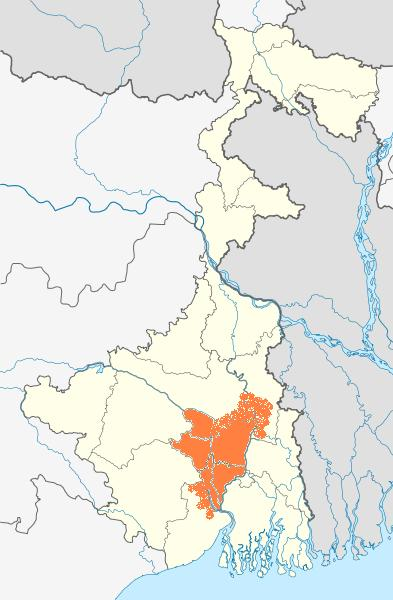 Largest expanse of Bhurshut Kingdom